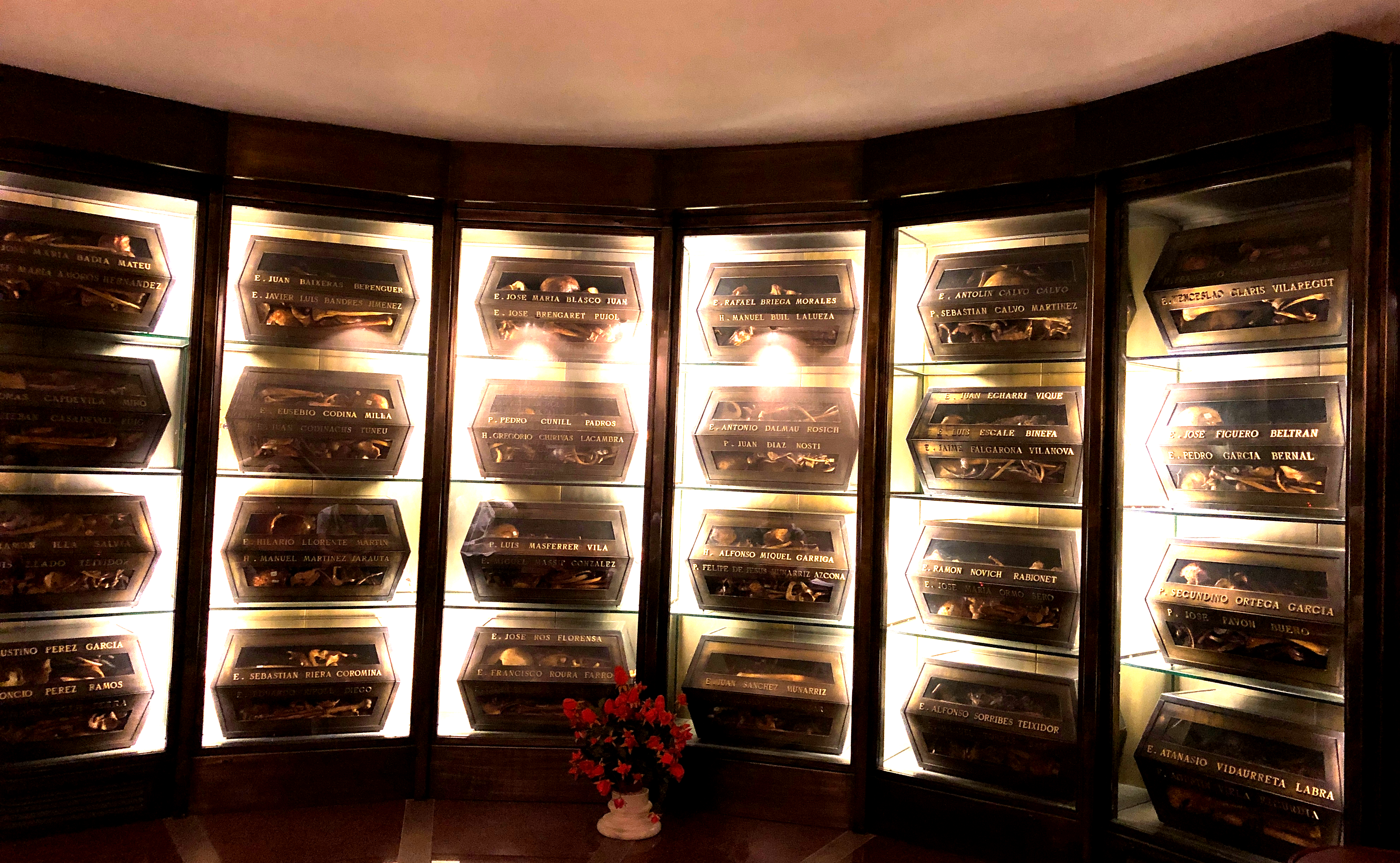 Crypt of the martyrs - Church annexed to the museum of the Claretian Martyrs of Barbastro